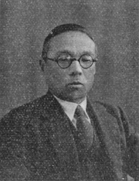 Mr. Tarō Takemasa.